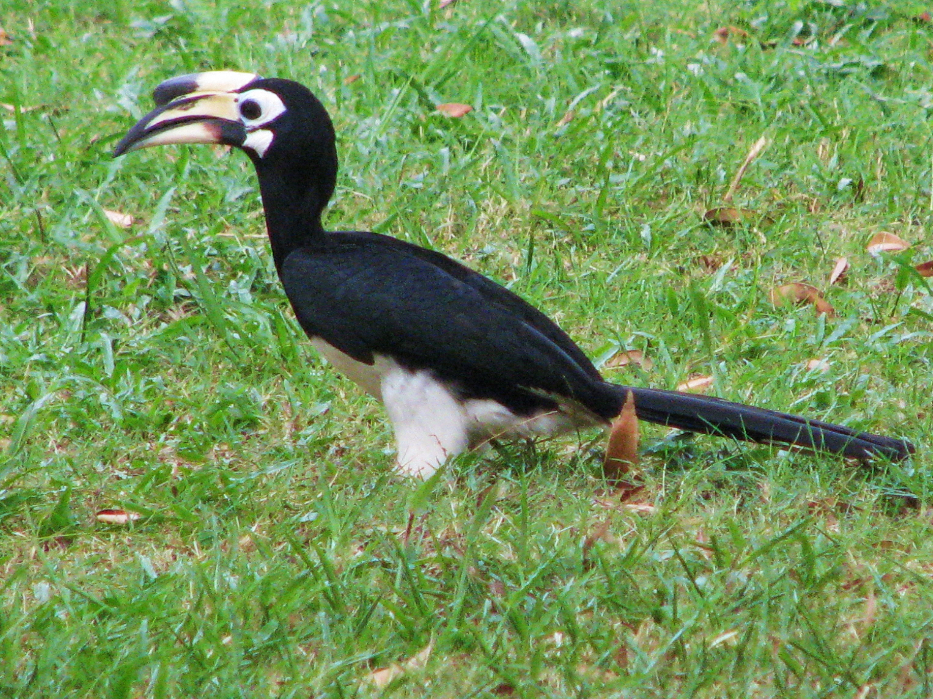 An Oriental Pied Hornbill on Ko Tarutao island in Satun, Thailand